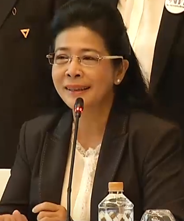 Sudarat Keyuraphan is a Thai politician and the chairwoman of Pheu Thai party's strategic commitee